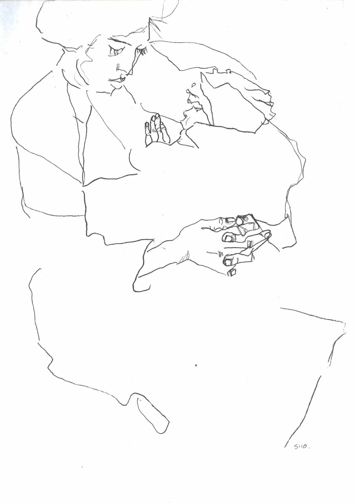 Mother with child